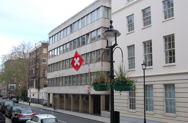 Looking east at the Swiss embassy, Montagu Place, London W1